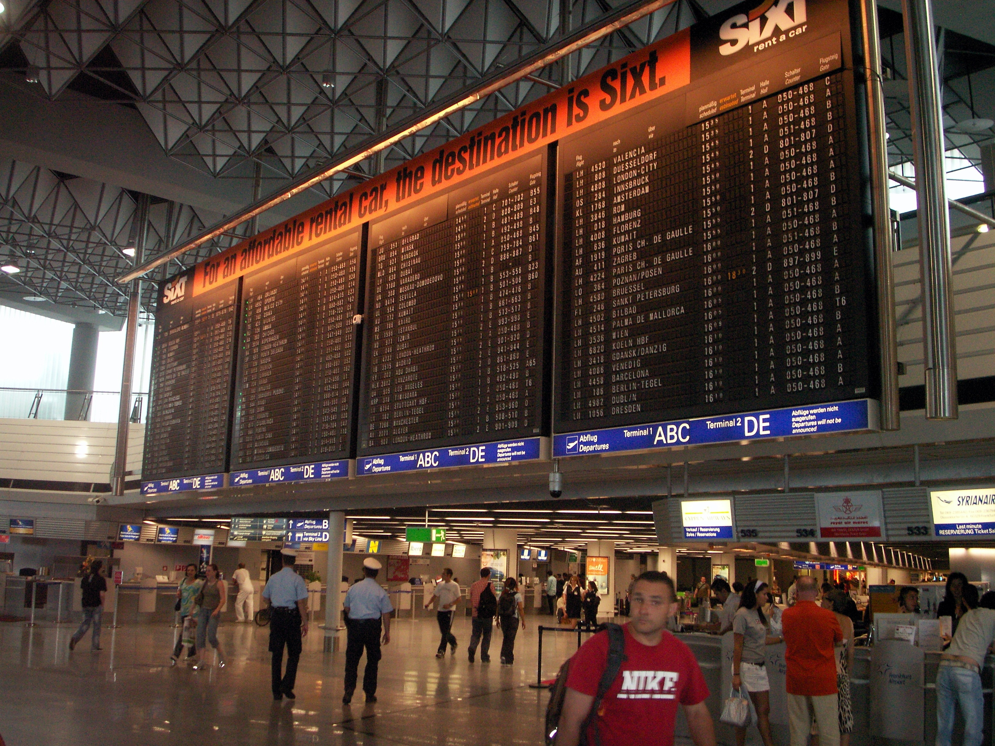 Information Panel, Terminal 1 at Frankfurt Airport